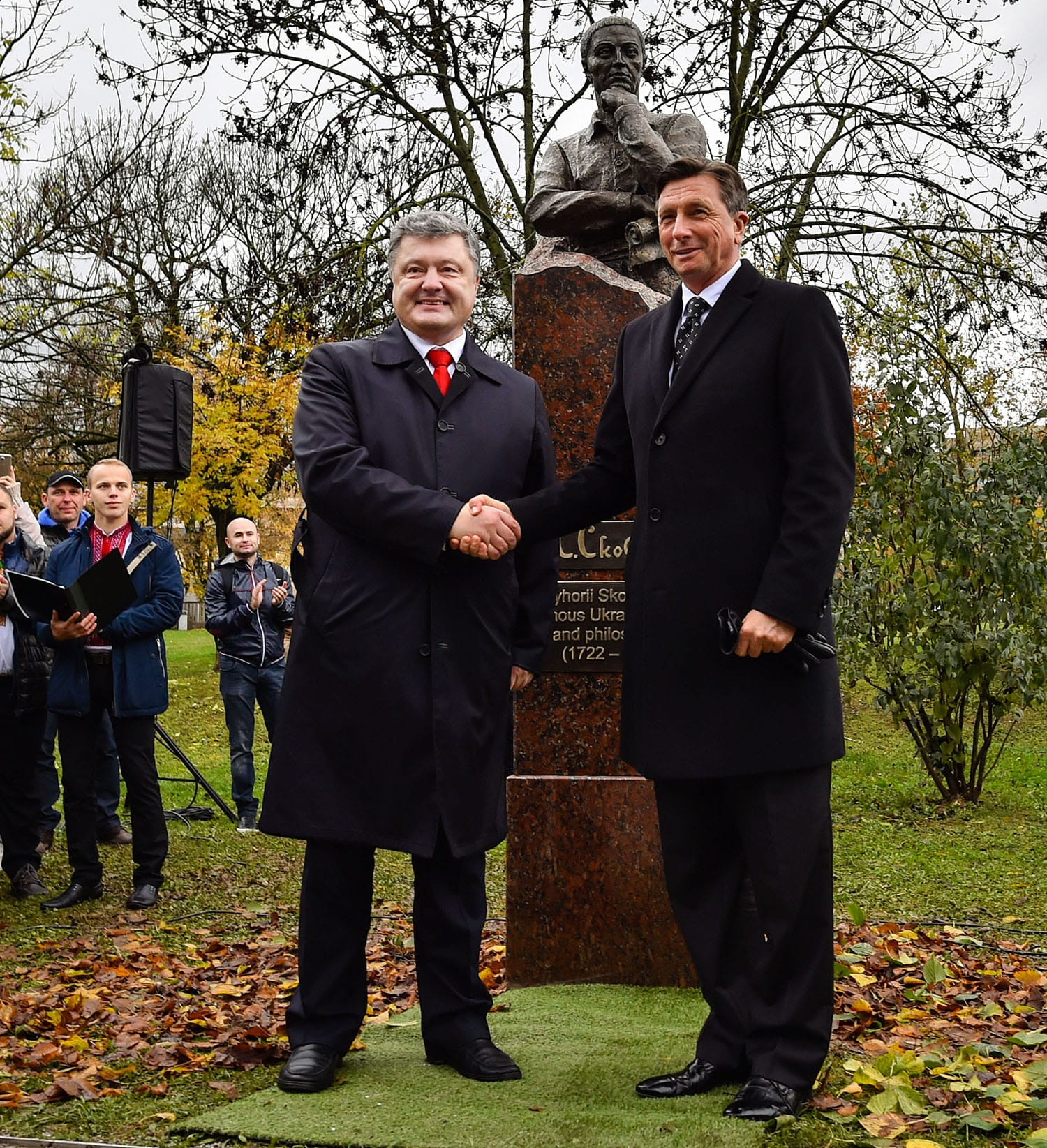 Hryhoriy Skovoroda monument in Ljubliana